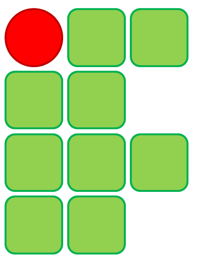 IFET logo. Created with Microsoft Office PowerPoint.